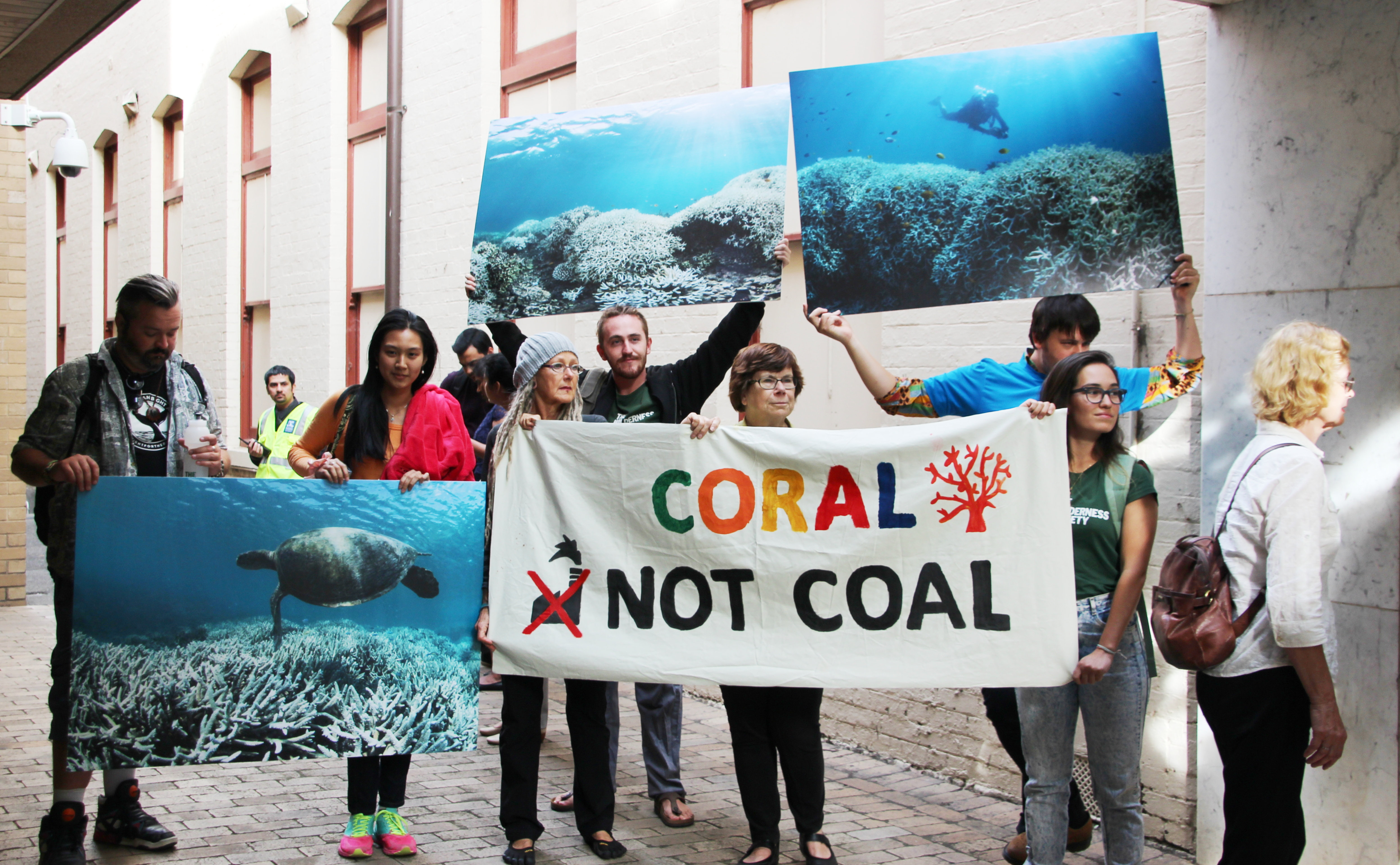 The Indian Finance Minister, Arun Jaitley is in Australia trying to wrangle money for infrastructure projects including the the Adani Carmichael mine in the Galilee Basin. It was reported in Indian media he was meeting with Australian Finance Minister Matthias Cormann and the $117 billion sovereign wealth Future Fund CEO Peter Costello in regard to sourcing funding for the mine. We know that millions of Australians are opposed to opening the Galilee Basin and coal ports on the Great Barrier Reef. This week we have seen the worst ever bleaching event on the Great Barrier Reef. We know that we can’t have coal and coral, we have to choose. See the ABC 7.30 Report on the extreme bleaching event caused by climate change. The Snap protest was organised by AYCC outside a public lecture by Finance Minister Arun Jaitley at Melbourne University.